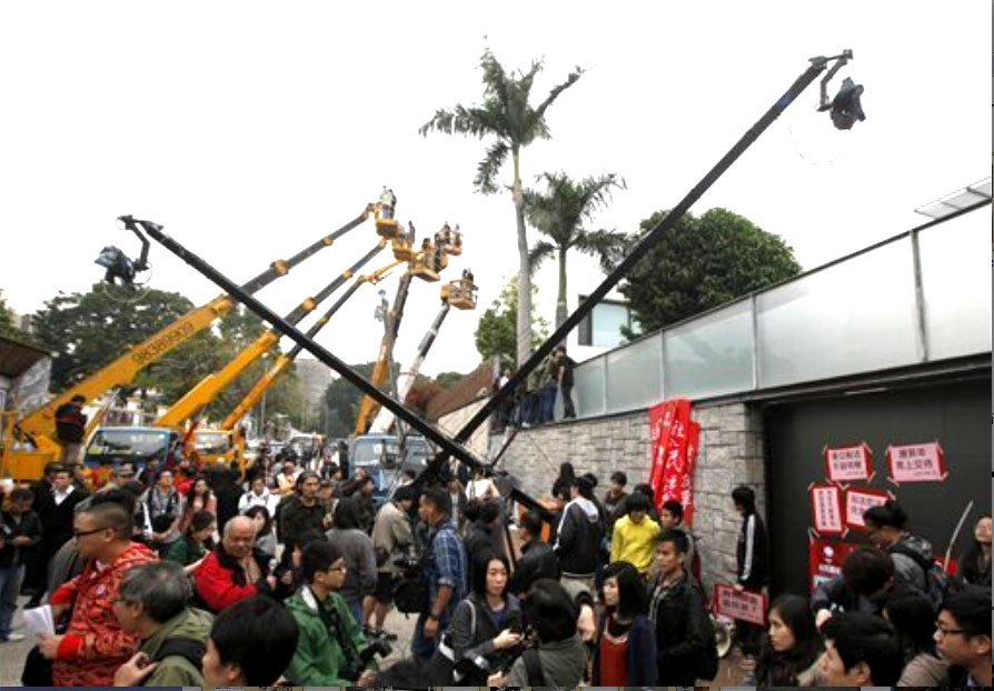 Kowloon Tong York Road Mr Tang home with HK media cranes 2012